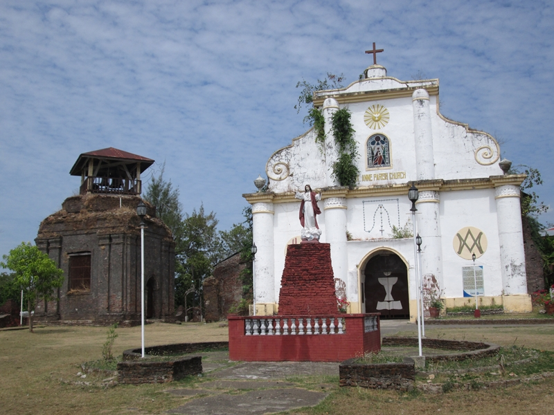 Spanish era church of Santa Ana in Piddig, Ilocos Norte.